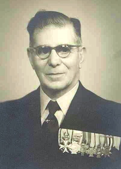 M. Cohen